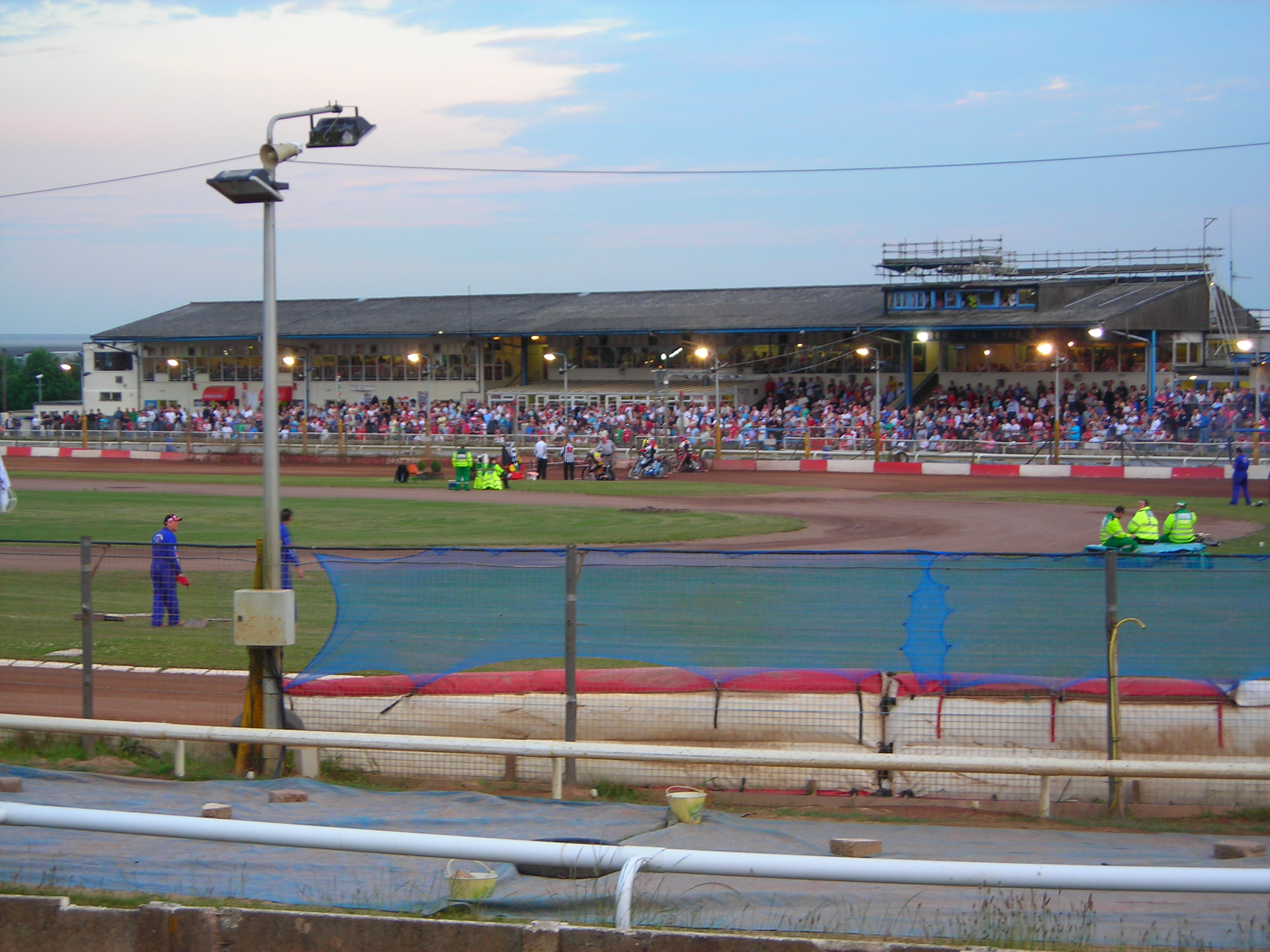 Start of speedway race at the Abbey stadium, Swindon Robins